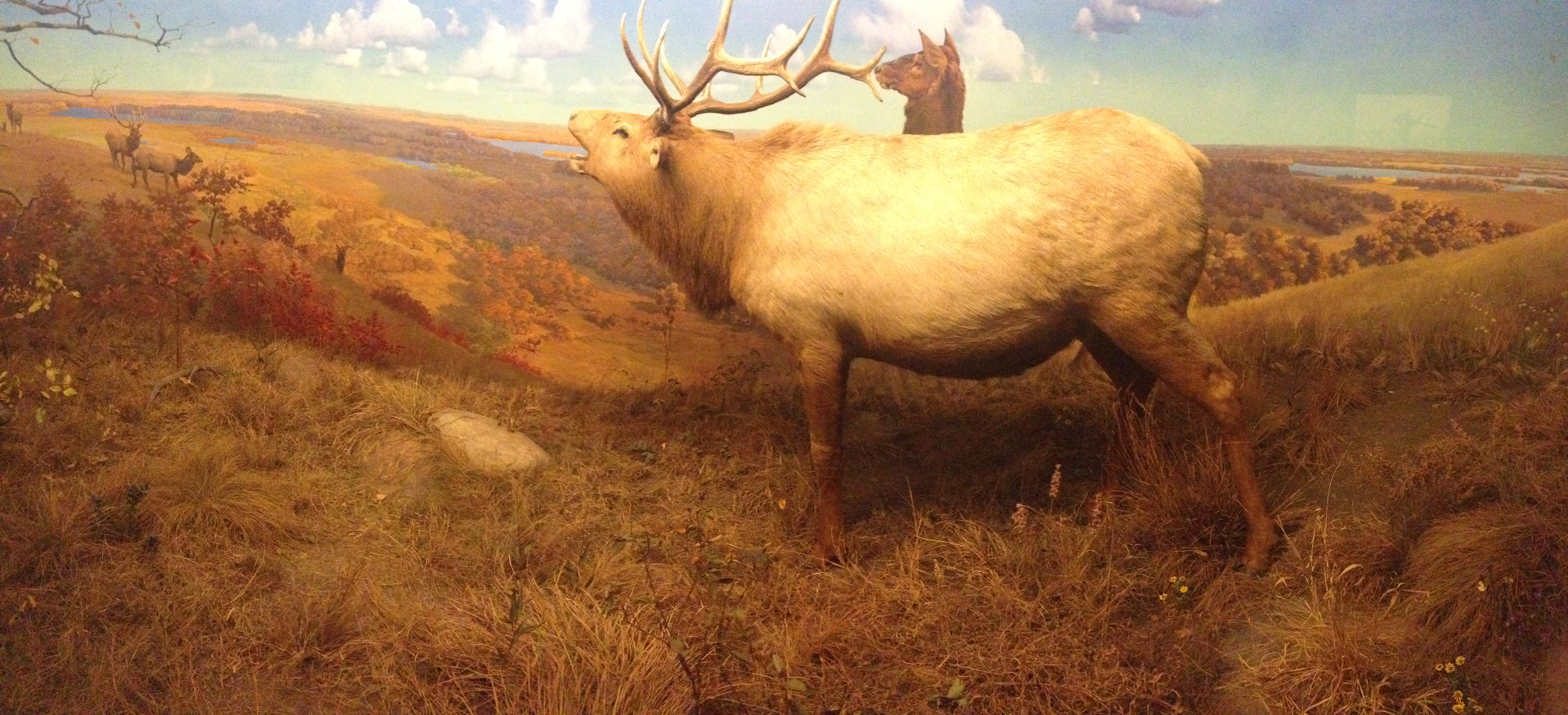 East Bank campus of the University of Minnesota. Diorama setting: Inspiration Peak northwest of Alexandria, Minnesota.